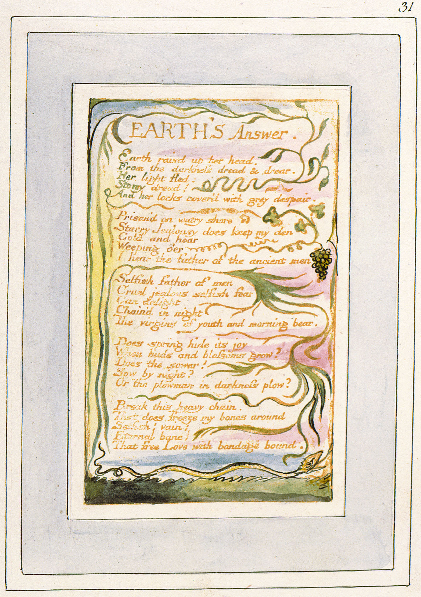 Songs of Innocence and of Experience, copy V, 1821 (Morgan Library and Museum) object 31 Earth's Answer